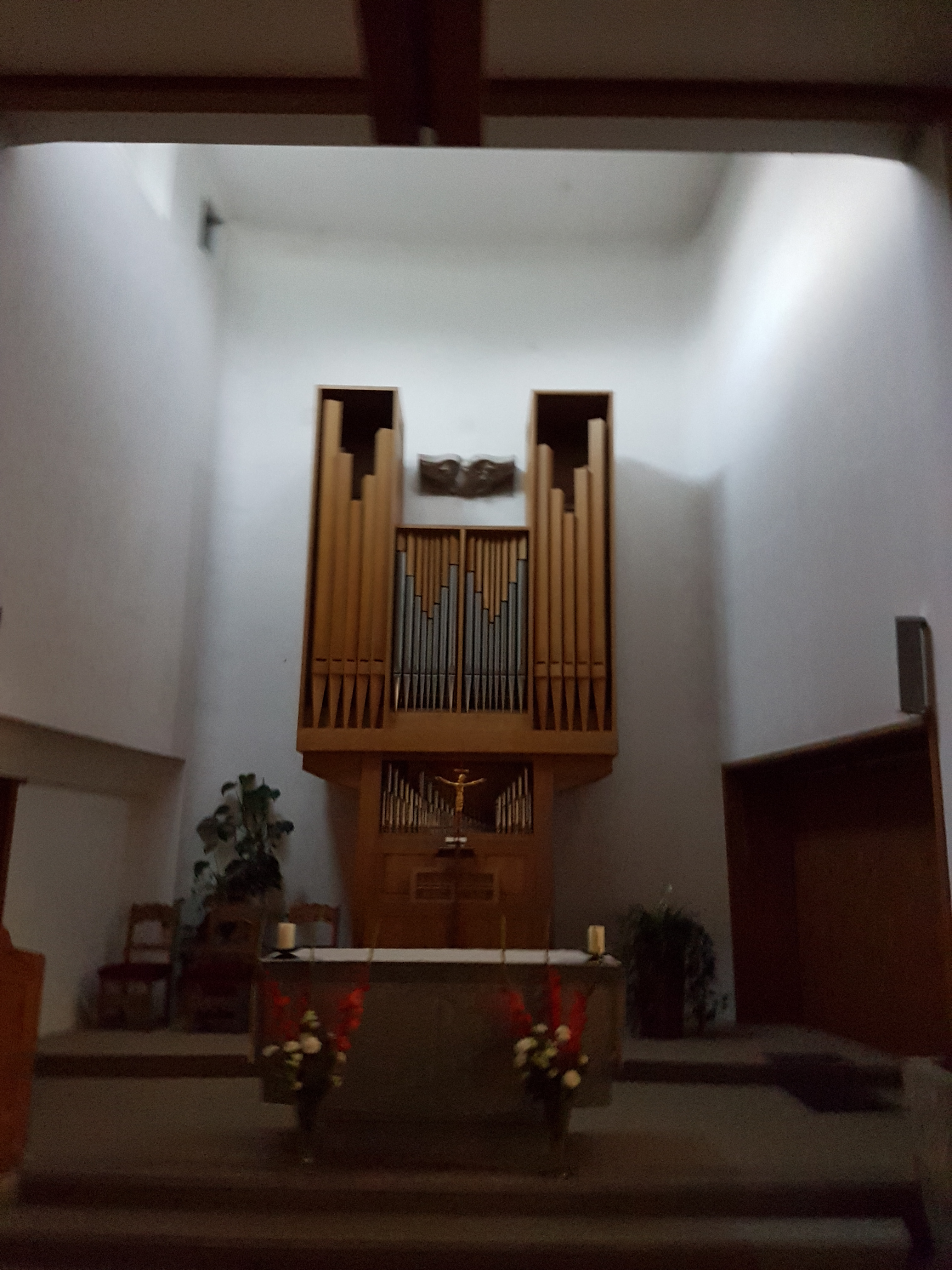 Church of San Spiert in Pontresina, Grisons, Switzerland. The organ of the company August Späth, Freiburg im Breisgau, with eleven registers and 731 pipes was built in 1972 and inaugurated on January 21, 1973.